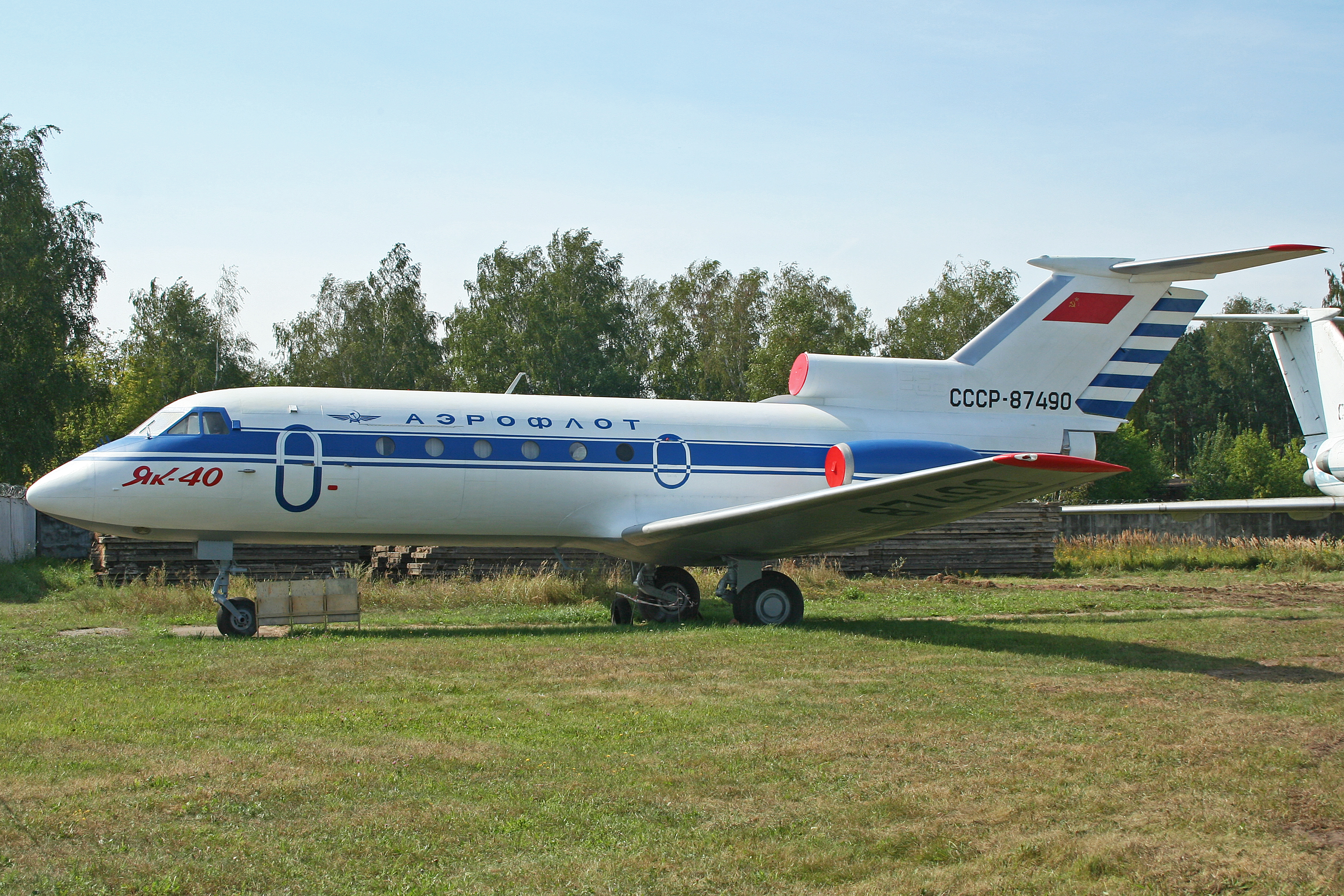 Built as a standard Yak-40, this aircraft was later updated and became the prototype Yak-40K. It has been in the museum since at least 2002. c/n 9110117. On display at the Russian Air Force Museum. Monino, Russia. 13-8-2012